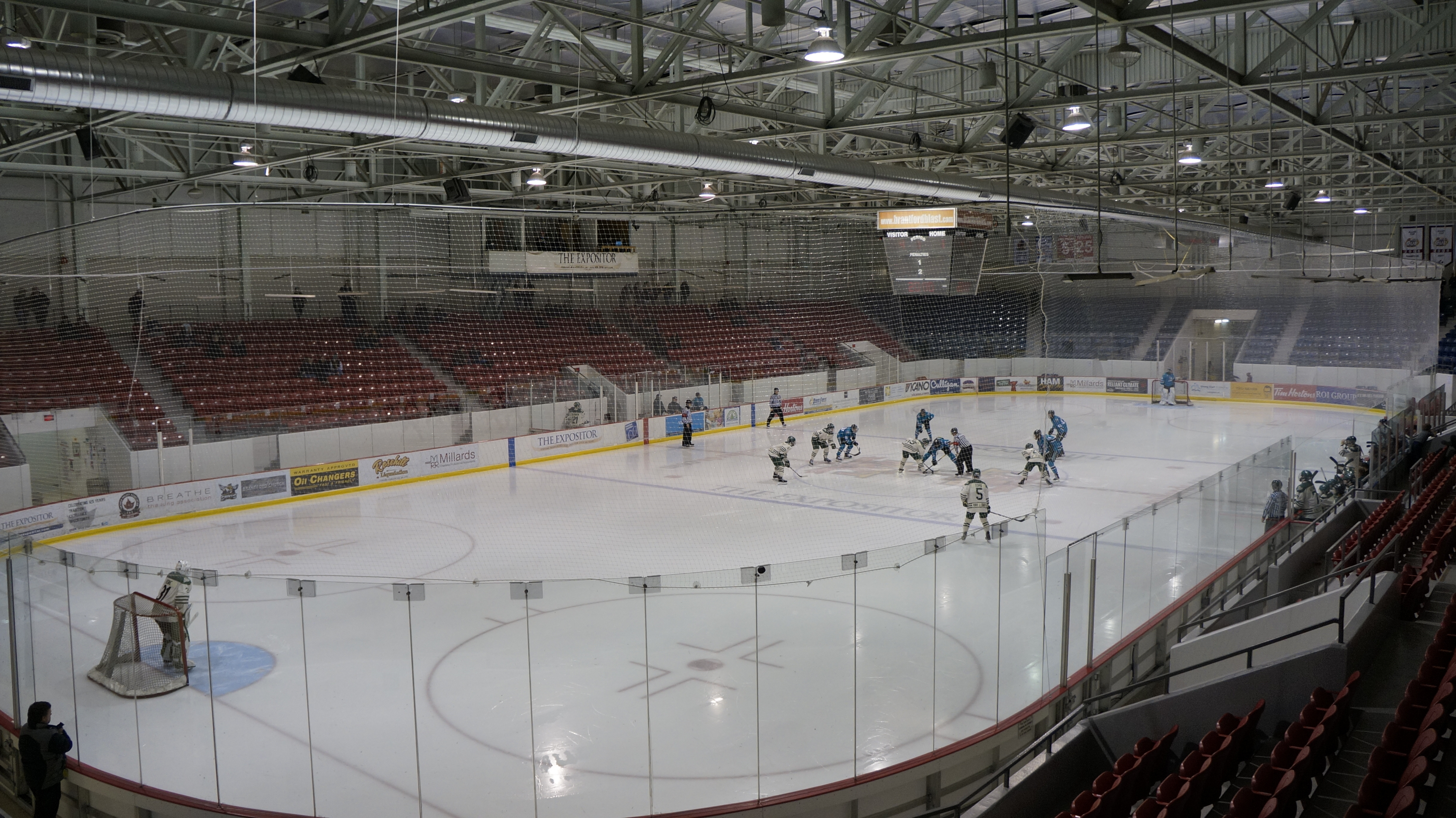 The Brantford Bandits hosting the Elmira Sugar Kings at the Brantford Civic Centre in Brantford, Ontario on February 1, 2020